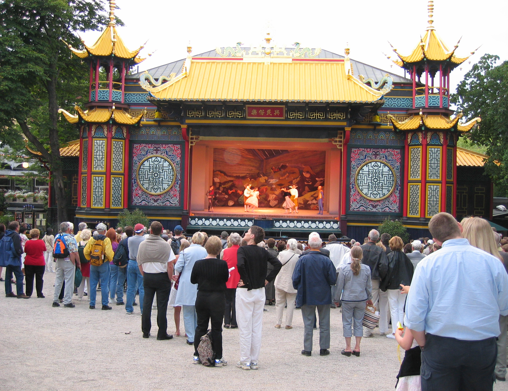 Pantomimeteateret Tivoli